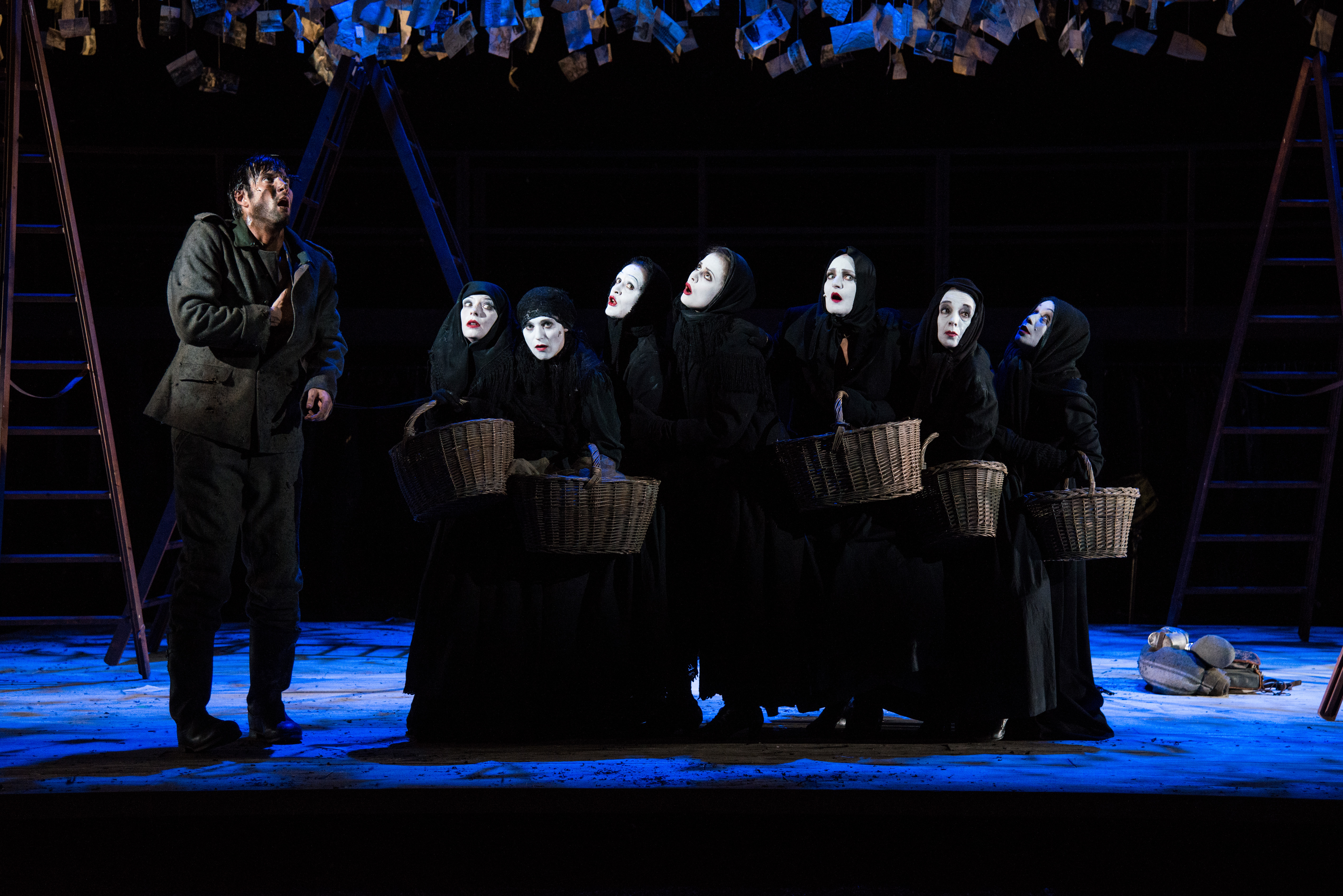 Don Juan kommt aus dem Krieg, Salzburger Festspiele 2014, Sonja Beißwenger, Olivia Grigolli, Sabine Haupt, Traute Hoess, Elisa Plüss, Nele Rosetz, Janina Sachau, Natali Seelig, Max Simonischek and Michaela Steiger